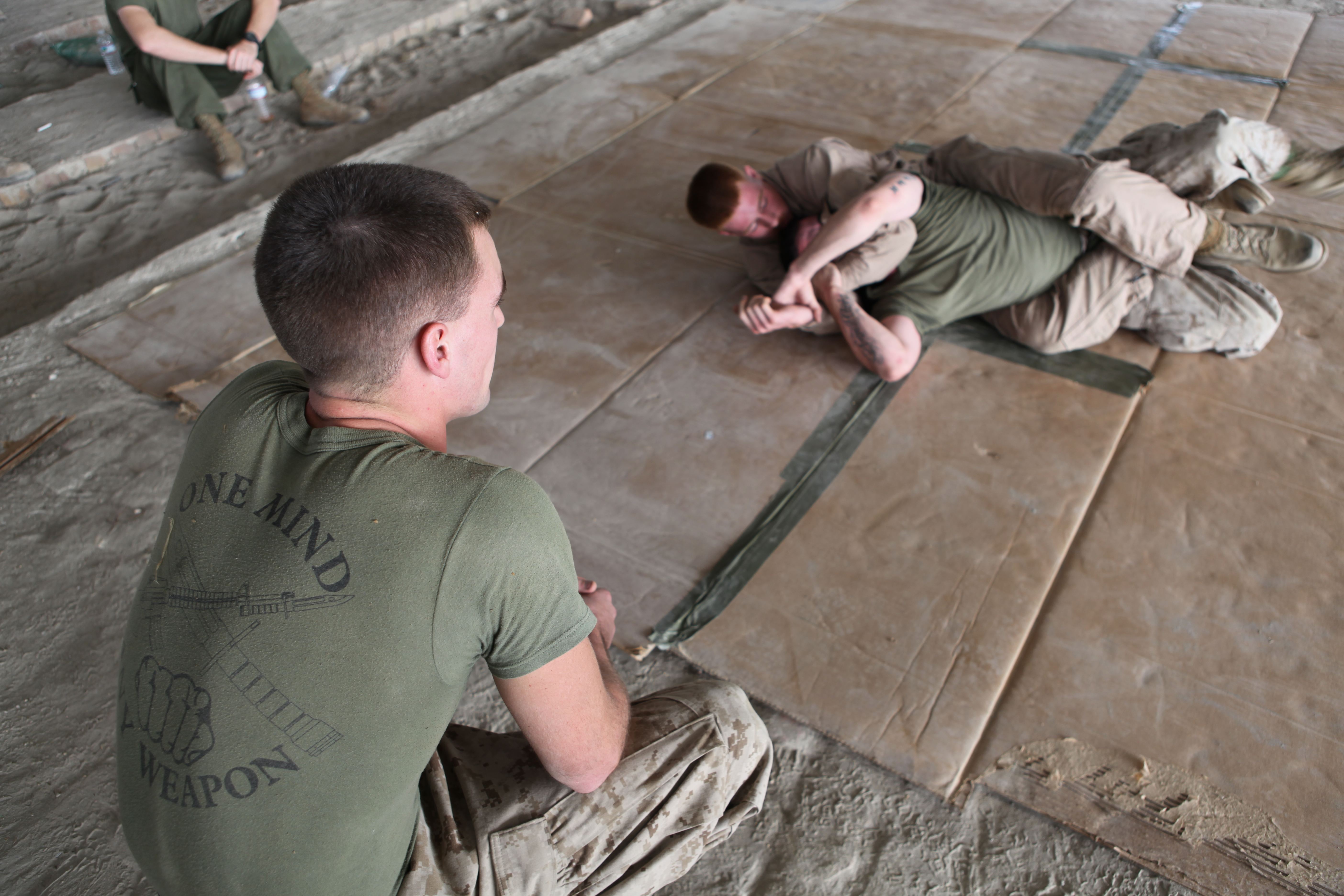 Corporal Matthew Miller, Marine Corps Martial Arts Program (MCMAP) instructor, supervises as Corporal Benjamin Hurley applies a choke hold to Cpl. Christopher Canada during a MCMAP training session at Pano Aqil Cantonment, Pakistan, Nov. 6, 2010. With the Pakistan military, 26th Marine Expeditionary Unit Marines have been flying CH-53E Super Stallion Helicopters to isolated locations since early September and have transported more than 3.9 million pounds of World Food Programme flood relief supplies to 150 different locations in southern Pakistan.